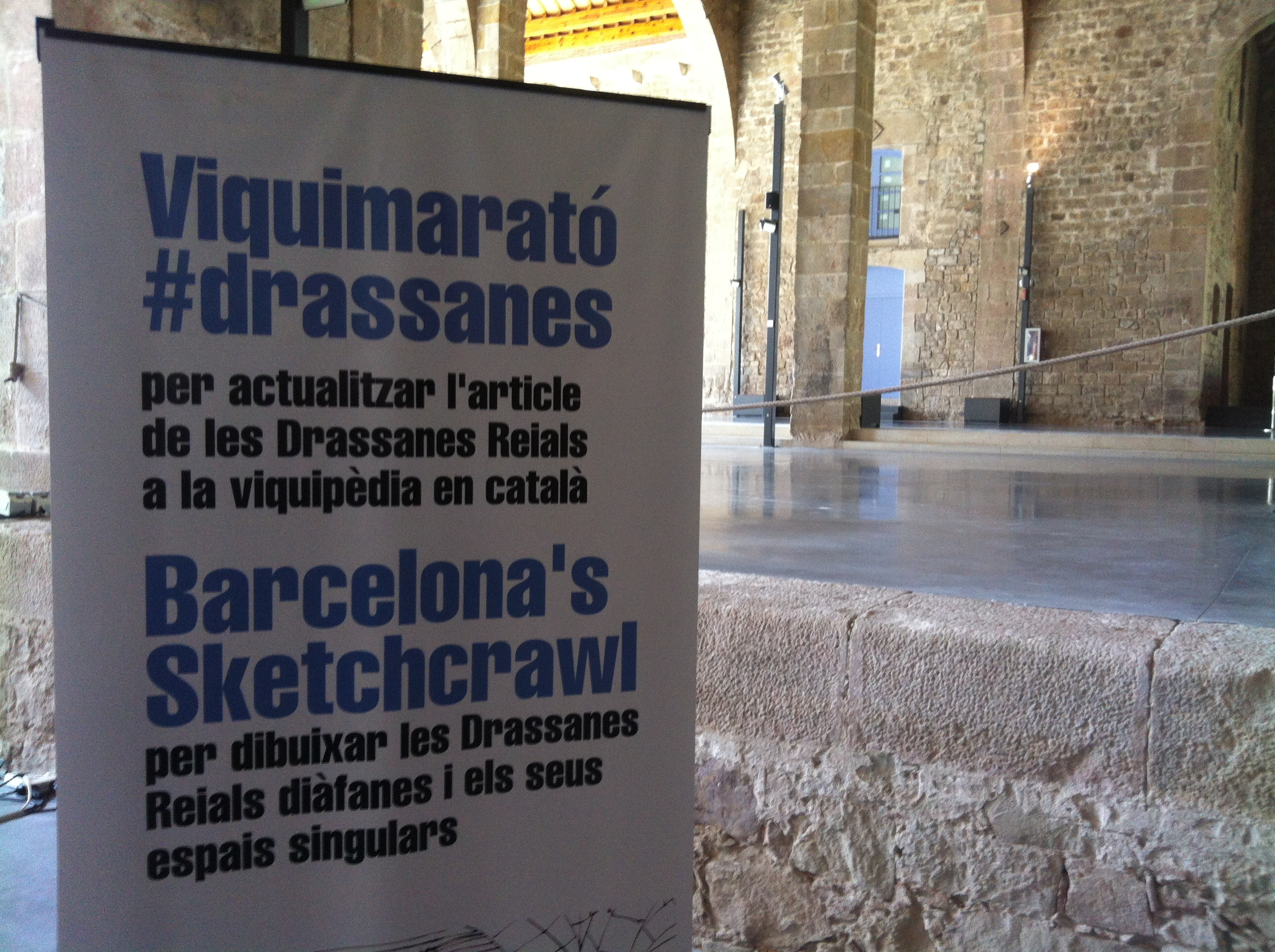 Editathon at the Barcelona Royal Shipyards done in march 2013, same day of 12th anniversary of Catalan Wikipedia